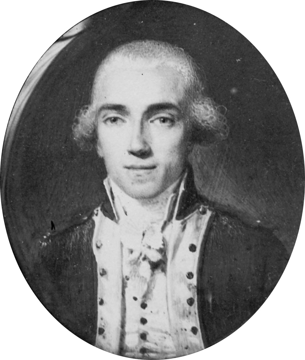 Bernard Sarrette, founder of the Conservatoire de Paris; detail from a framed black-and-white photograph of a miniature owned by Mme Jules Sarrette